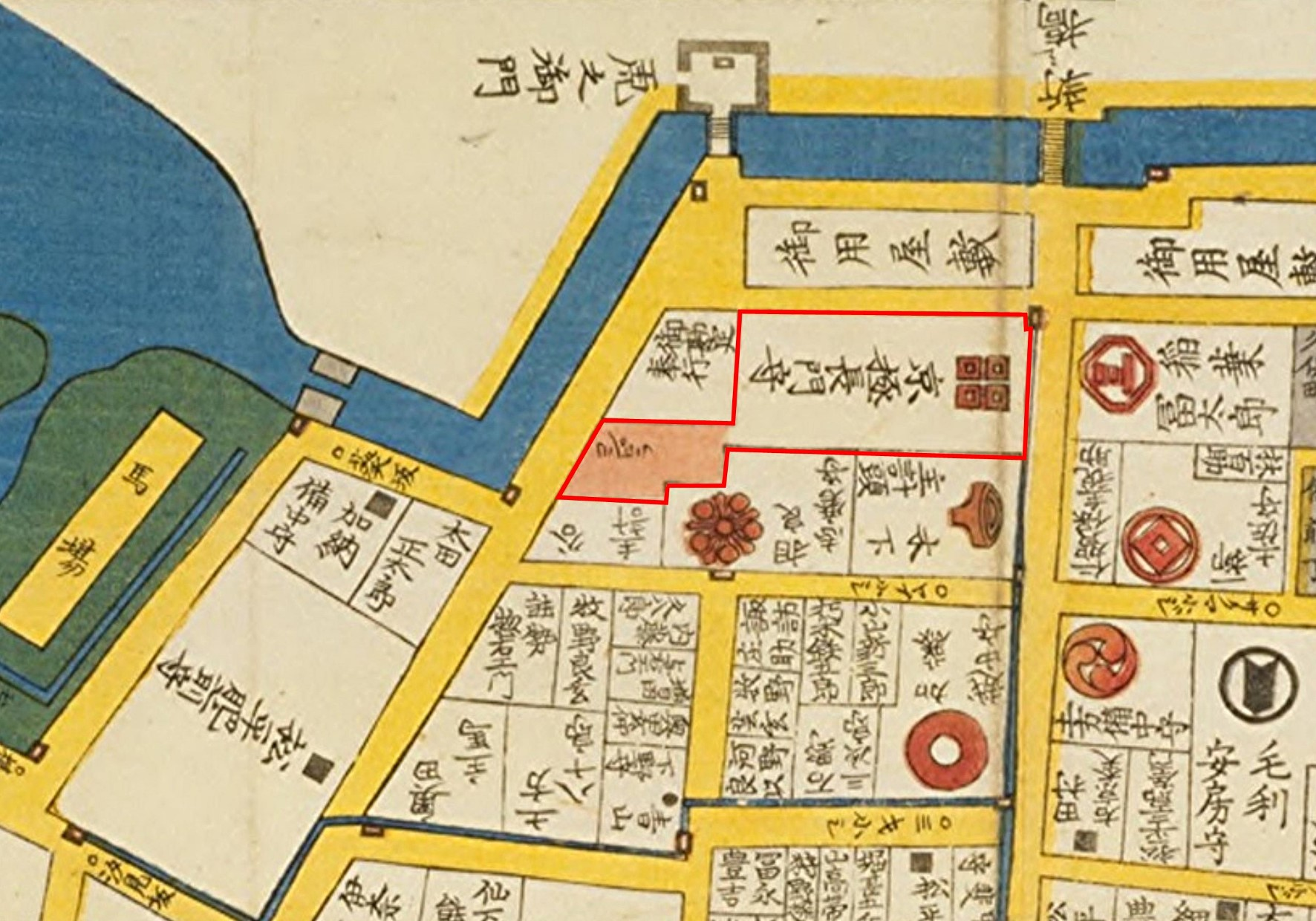 REsidence of Marugame-Kyôgoku at Edo